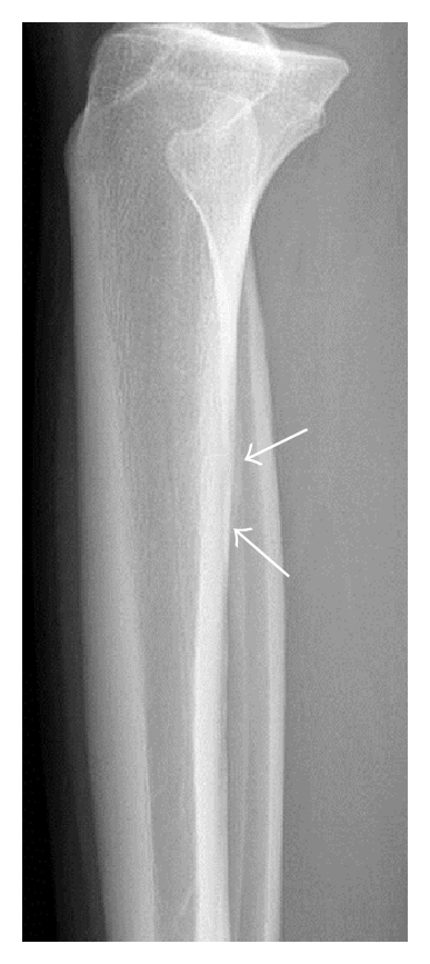 X-ray of subtle periosteal raction of tibial fracture. For context, see Occult fracture